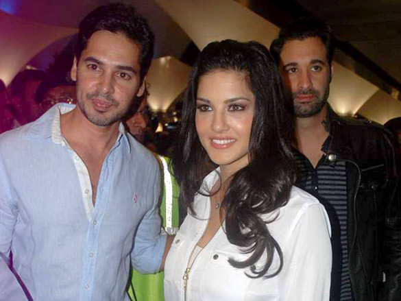 Sunny Leone received by Dino Morea and team at her arrival for Jism 2 shooting, Mumbai, India